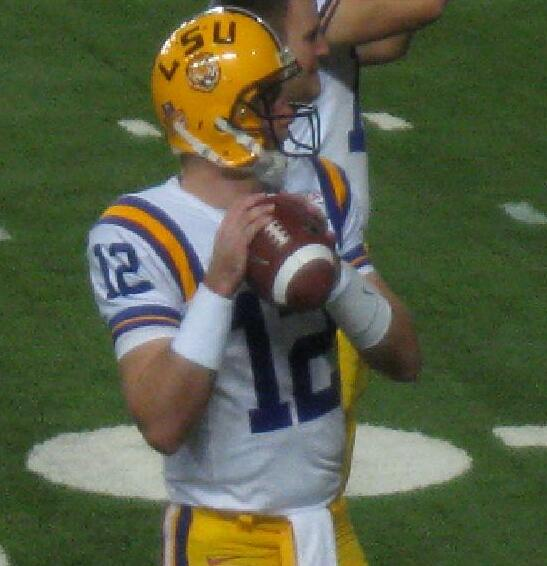 Jarrett Lee warming up prior to bowl game